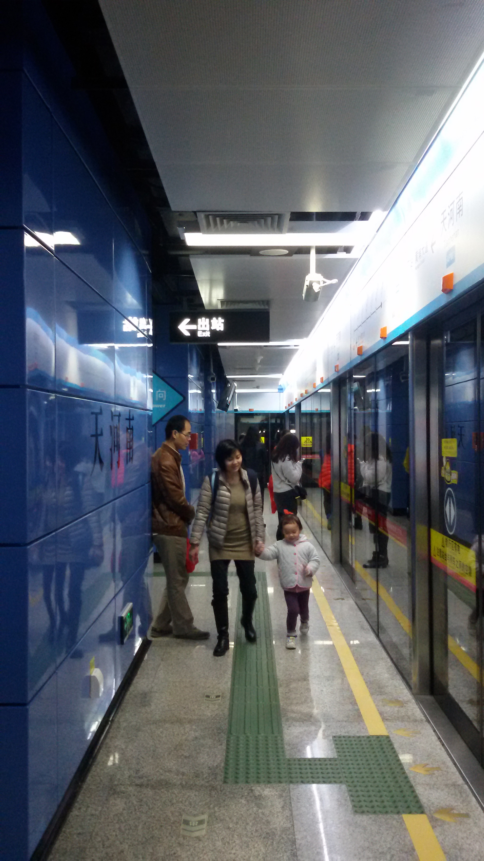 Platform for Tianhe South Station in Guangzhou Metro. 粵語: 廣州地鐵，天河南站嘅月台。